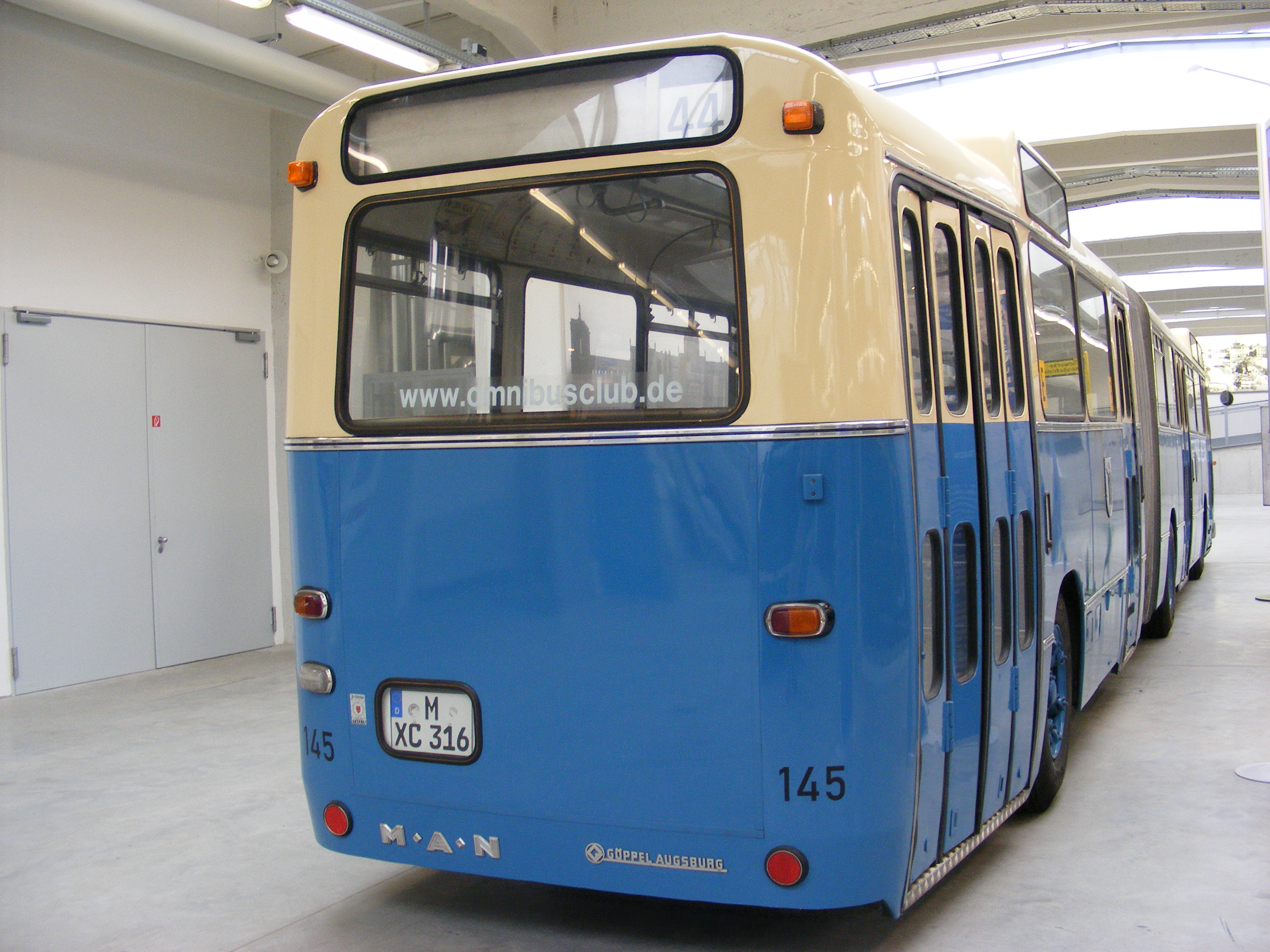 M.A.N./Göppel 890 UG M 16 A bus (#145, reg. M - XC 316) in MVG Museum, Munich, Germany. Built 1965.